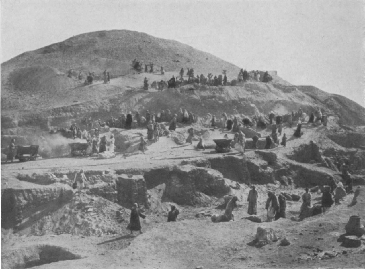 West side of the Pyramid of Amenemhat I, 1921/22